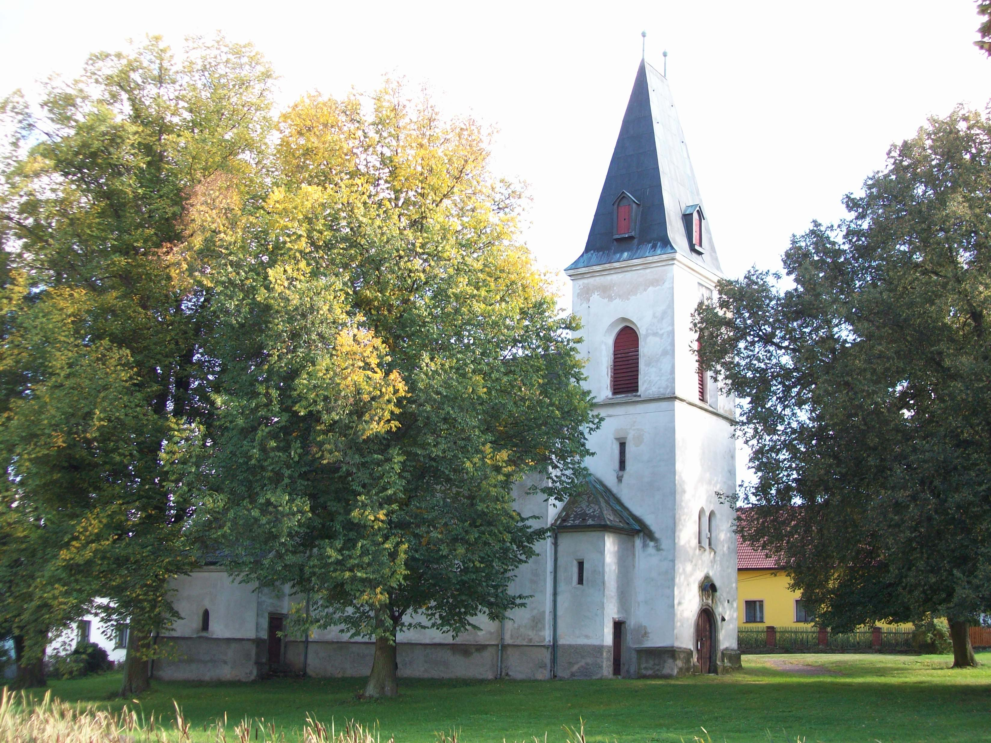 Mlečice - Holy Trinity church